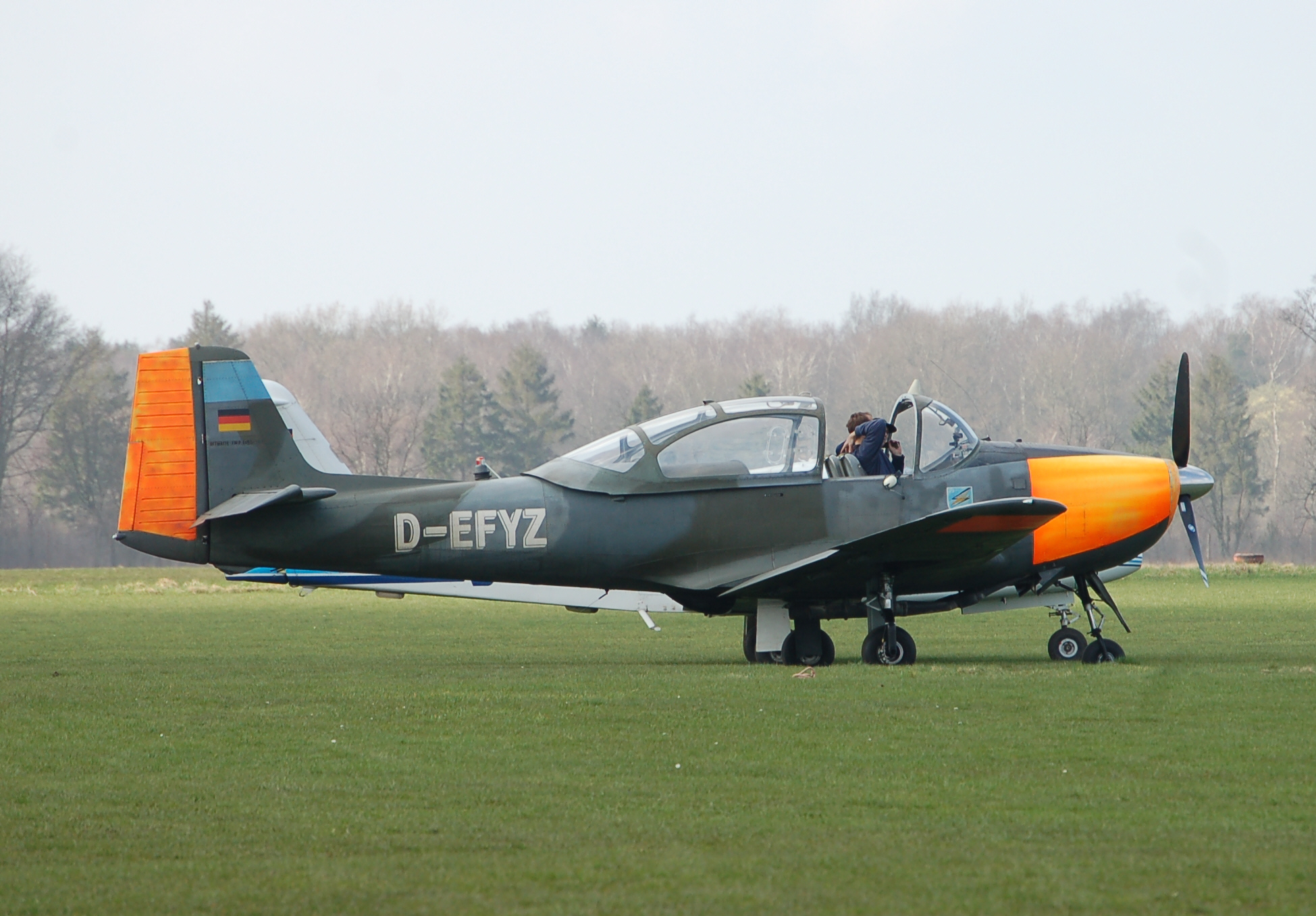 Piaggio P 149D auf dem Flugplatz Uetersen.